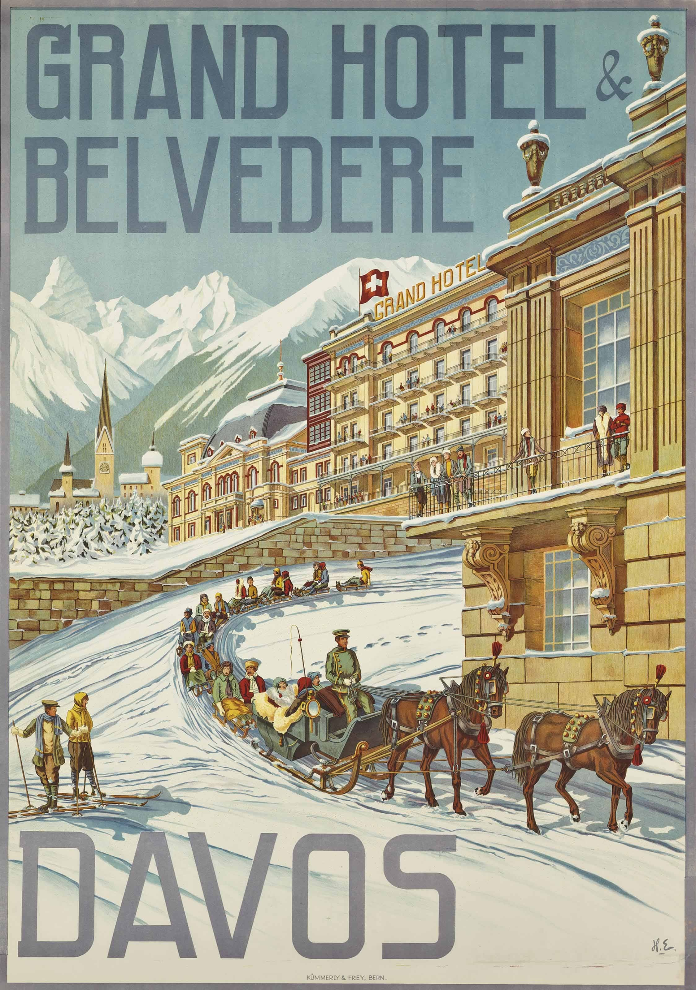 printed by Kümerly & Frey, Bern